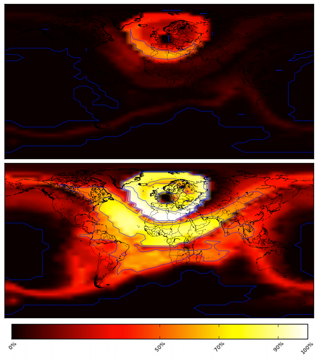 VOACAP Analysis of a isotrope antenna for 20m band located in JO40 at 23h: comparing 1W vs. 99W output power.